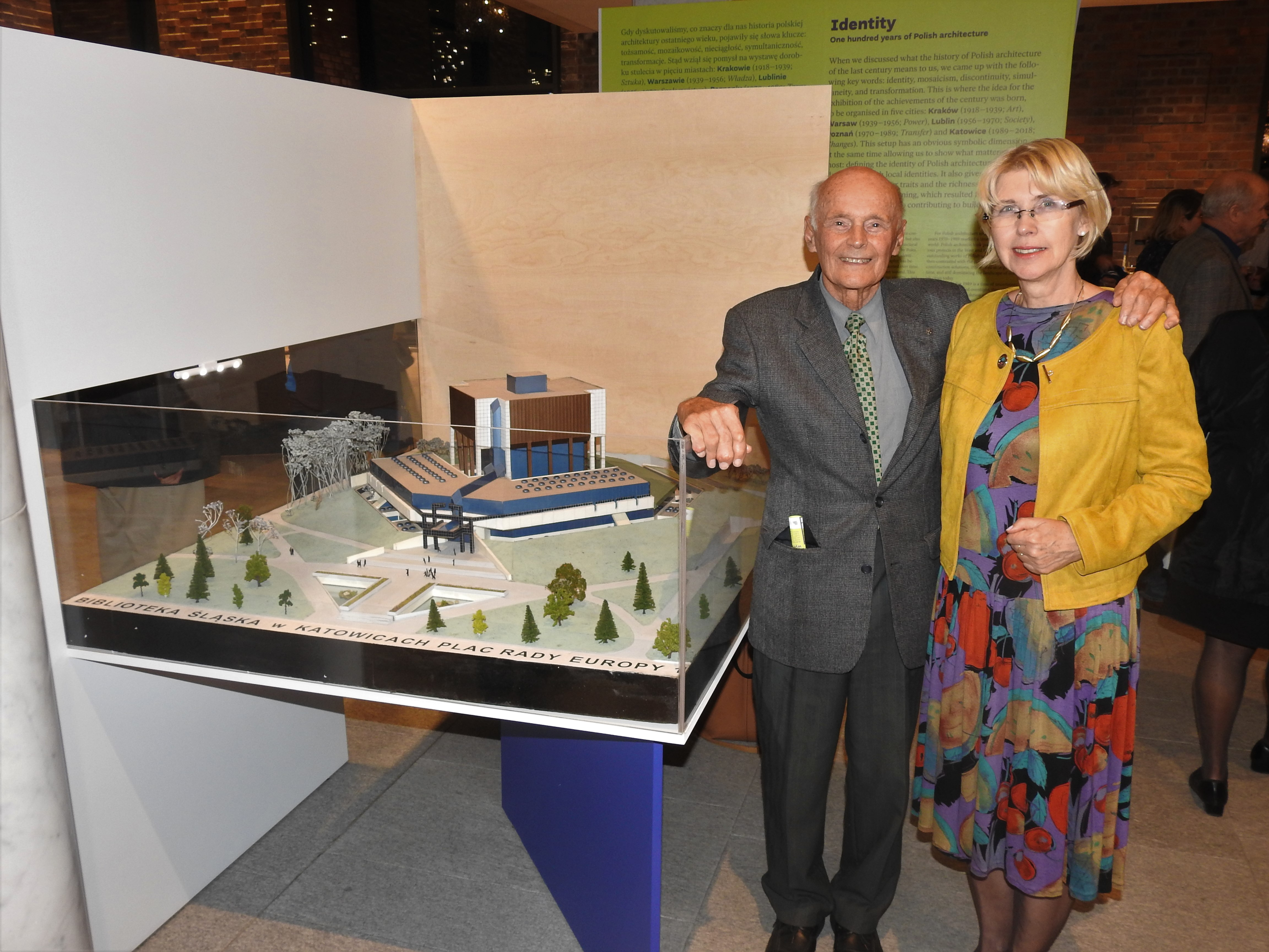 Arch. Jurand Jarecki and Iga Herok-Turska at the model of the Silesian Library - vernissage of the exhibition 'Identity. 100 years of Polish architecture ”of the National Institute of Architecture and Urban Planning, Katowice, NOSPR, 25 October 2019